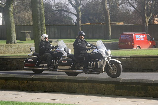 Hairy Bikers The Hairy Bikers in Minster Close, on location filming in Lincoln